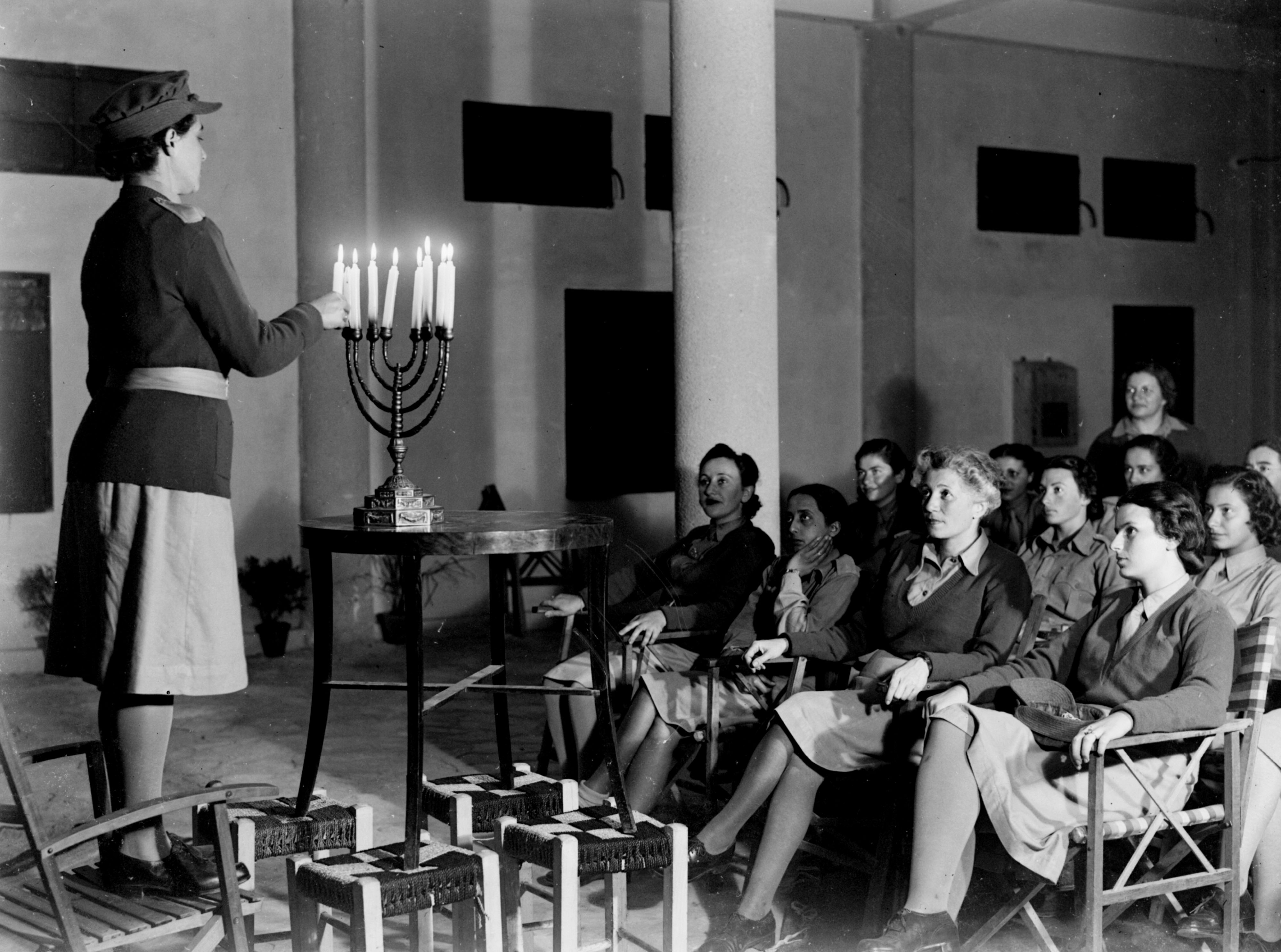 JEWISH VOLUNTEERS OF THE BRITISH AUXILIARY TERRITORIAL SERVICE CELEBRATING "HANUKA" IN CAIRO, EGYPT. מתנדבות יהודיות של המשמר הלאומי הבריטי המסייע. בצילום, הדלקת נרות חנוכה בקהיר, מצרים.